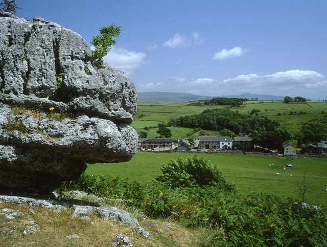 Hutton Roof from the Cuckoo Stone The Cuckoo stone is a large erratic limestone boulder